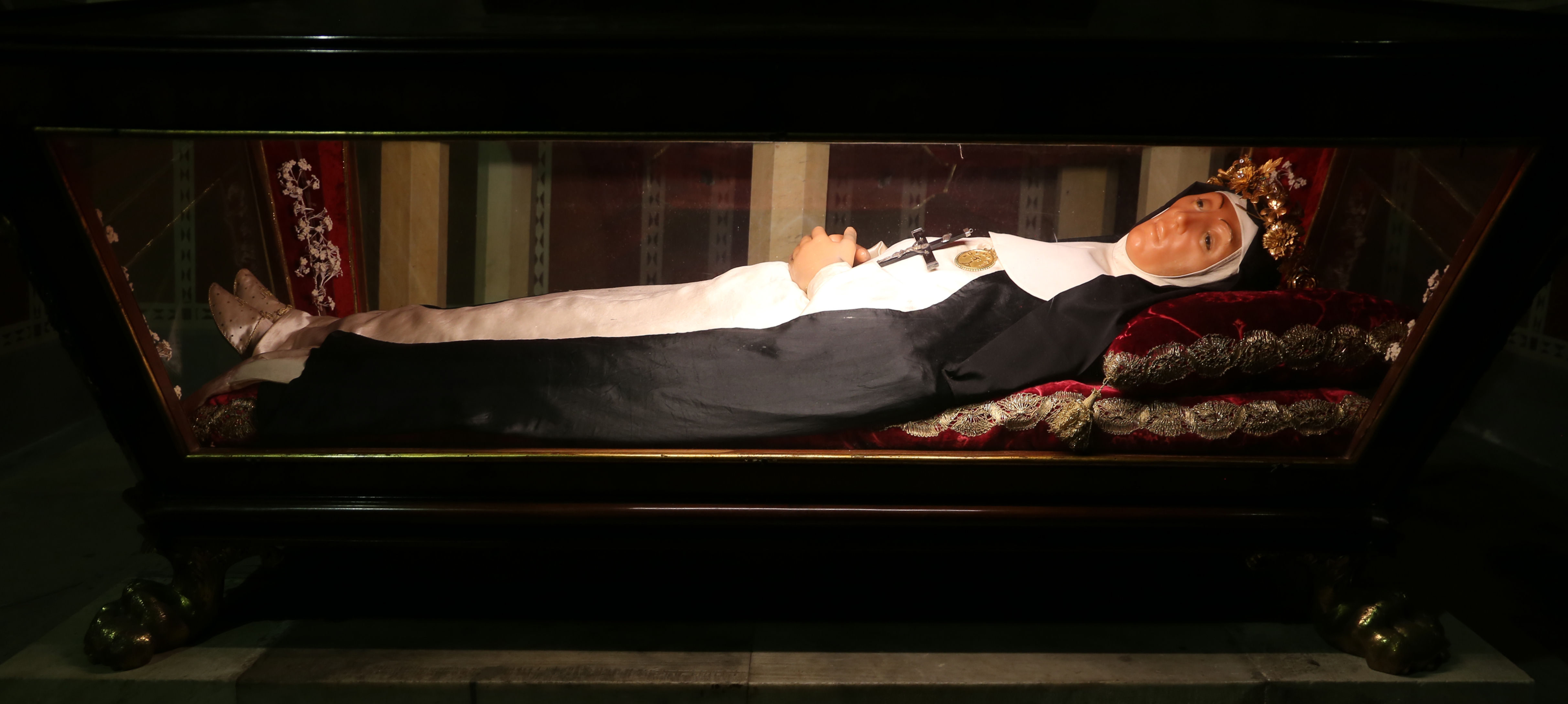 Santa Caterina (Pisa) - Interior